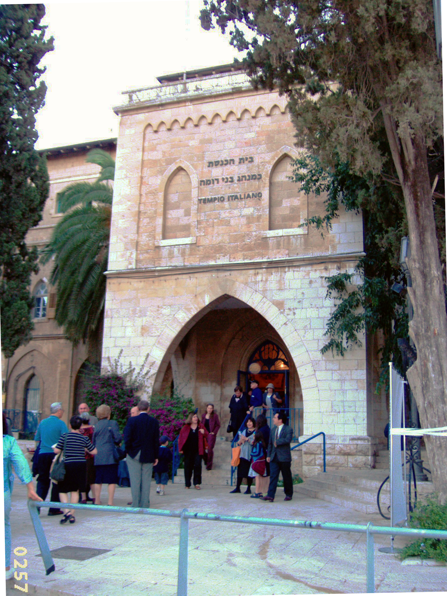 Jerusalem, Hillel st. 27, German hospice built in 1887. Since 1952, the building houses an italian synagogue and a museum about the italian jewry.